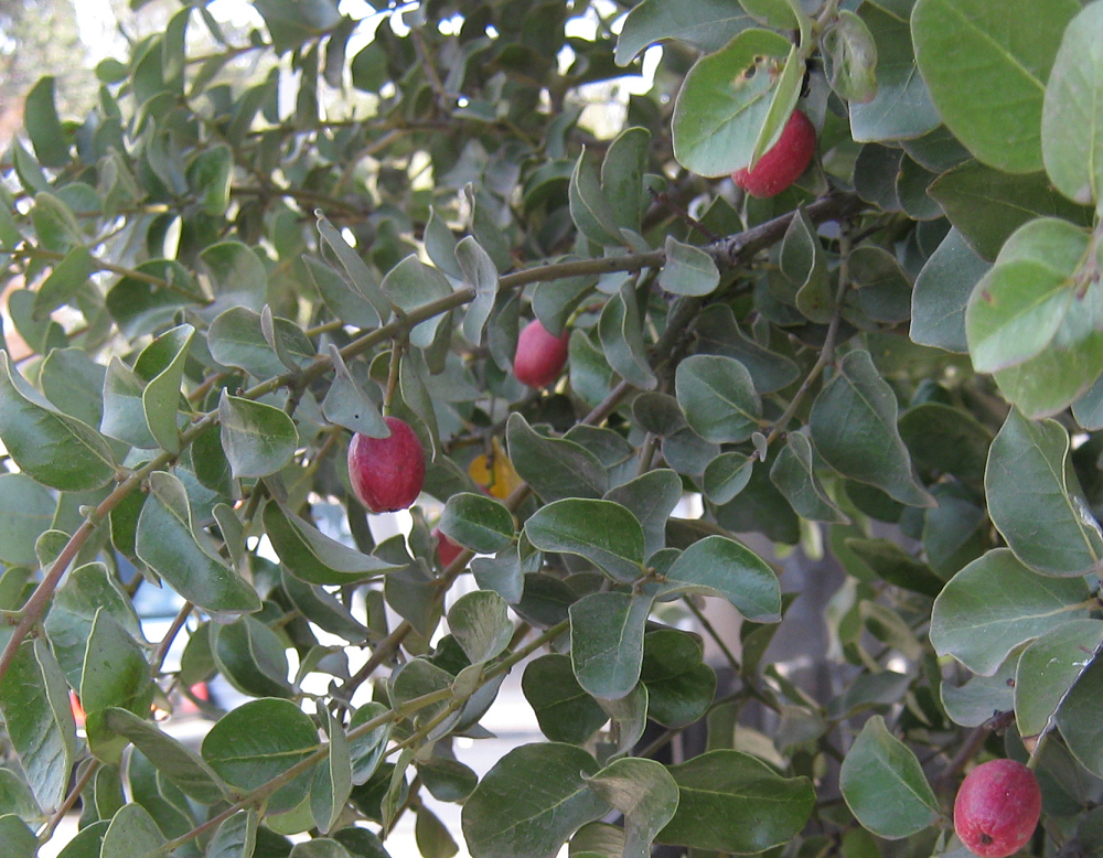 Cryptocarya alba, peumo, Santiago Chile